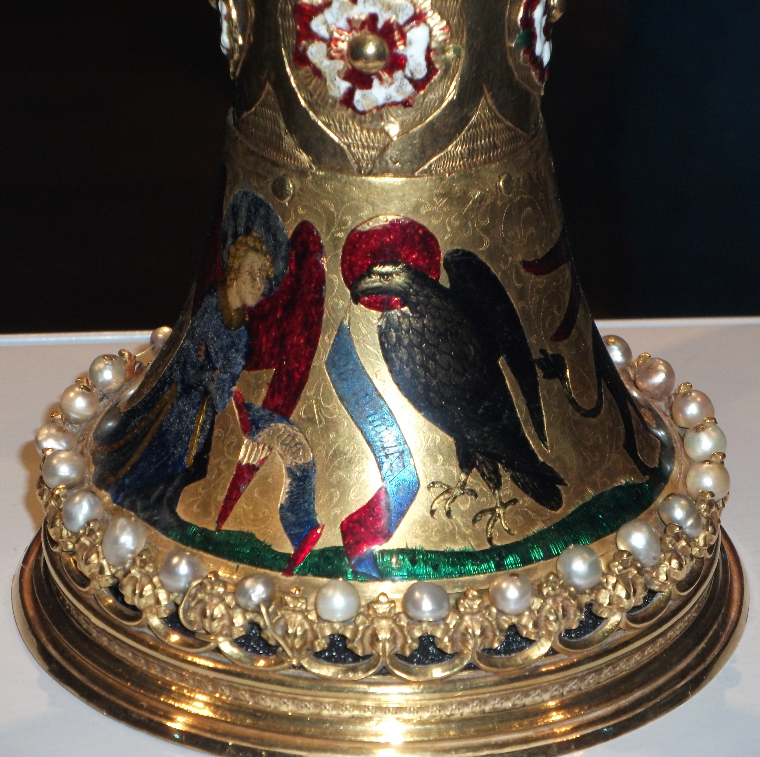 The Royal Gold Cup or Saint Agnes Cup is a solid gold covered cup lavishly decorated with enamel and pearls. It was made for the French royal family at the end of the 14th century, and later belonged to several English monarchs, before spending nearly 300 years in Spain. Since 1892 it has been in the British Museum, and is generally agreed to be the outstanding survival of late medieval French plate.